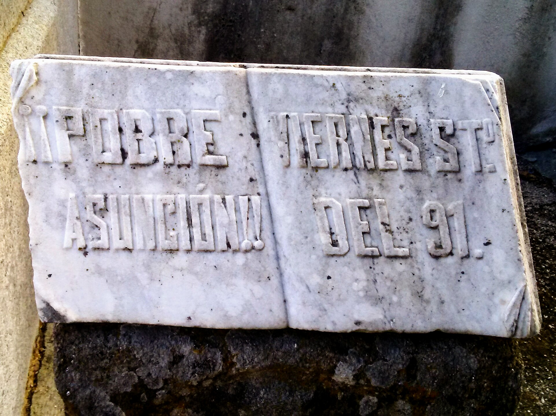 Tomb of Asunción González